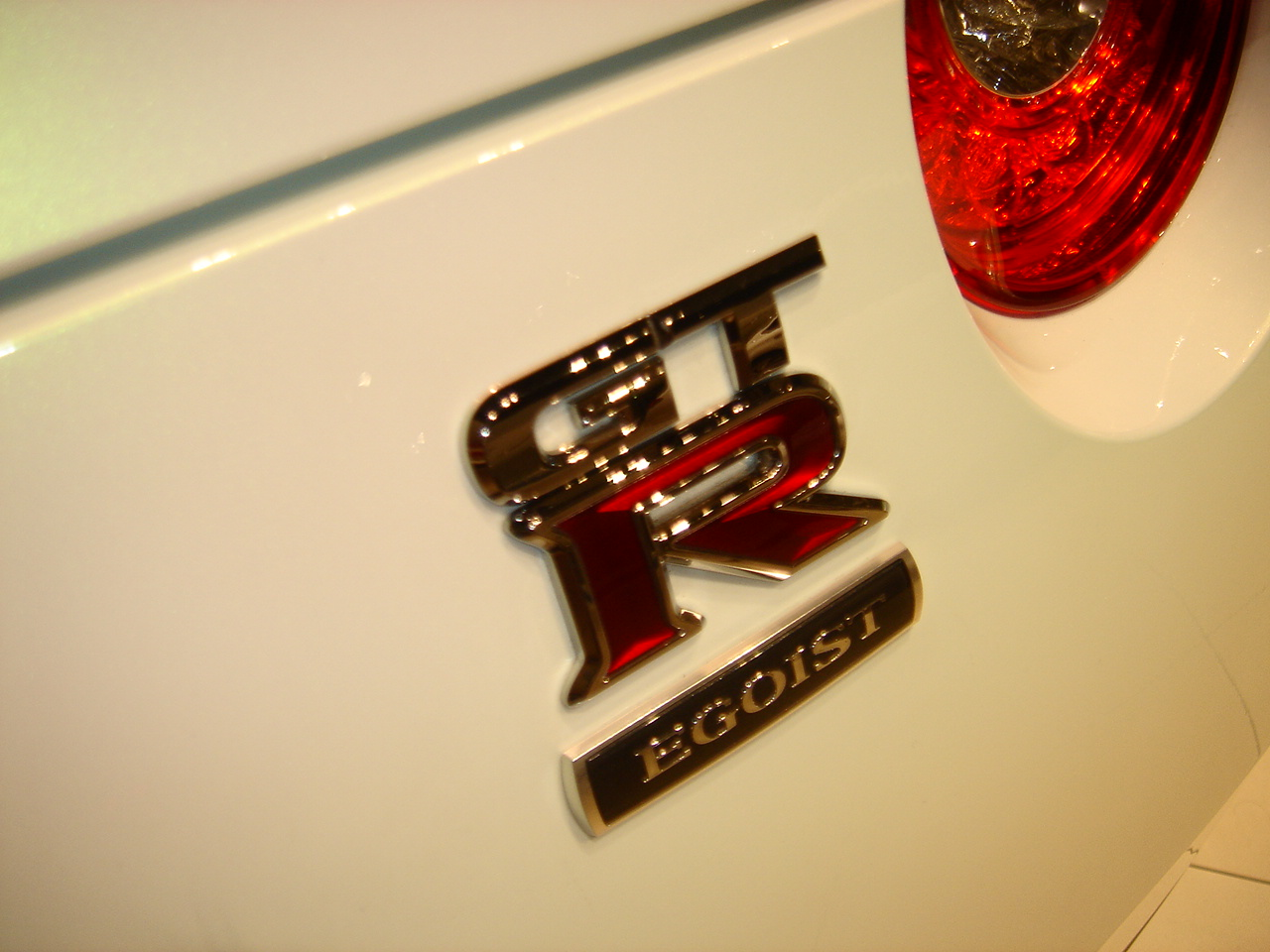 Nissan GT-R